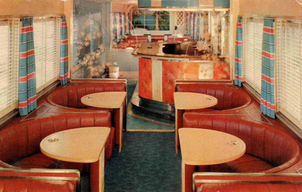 Photo postcard of the "Timberline Tavern" car of the Southern Pacific's Shasta Daylight.